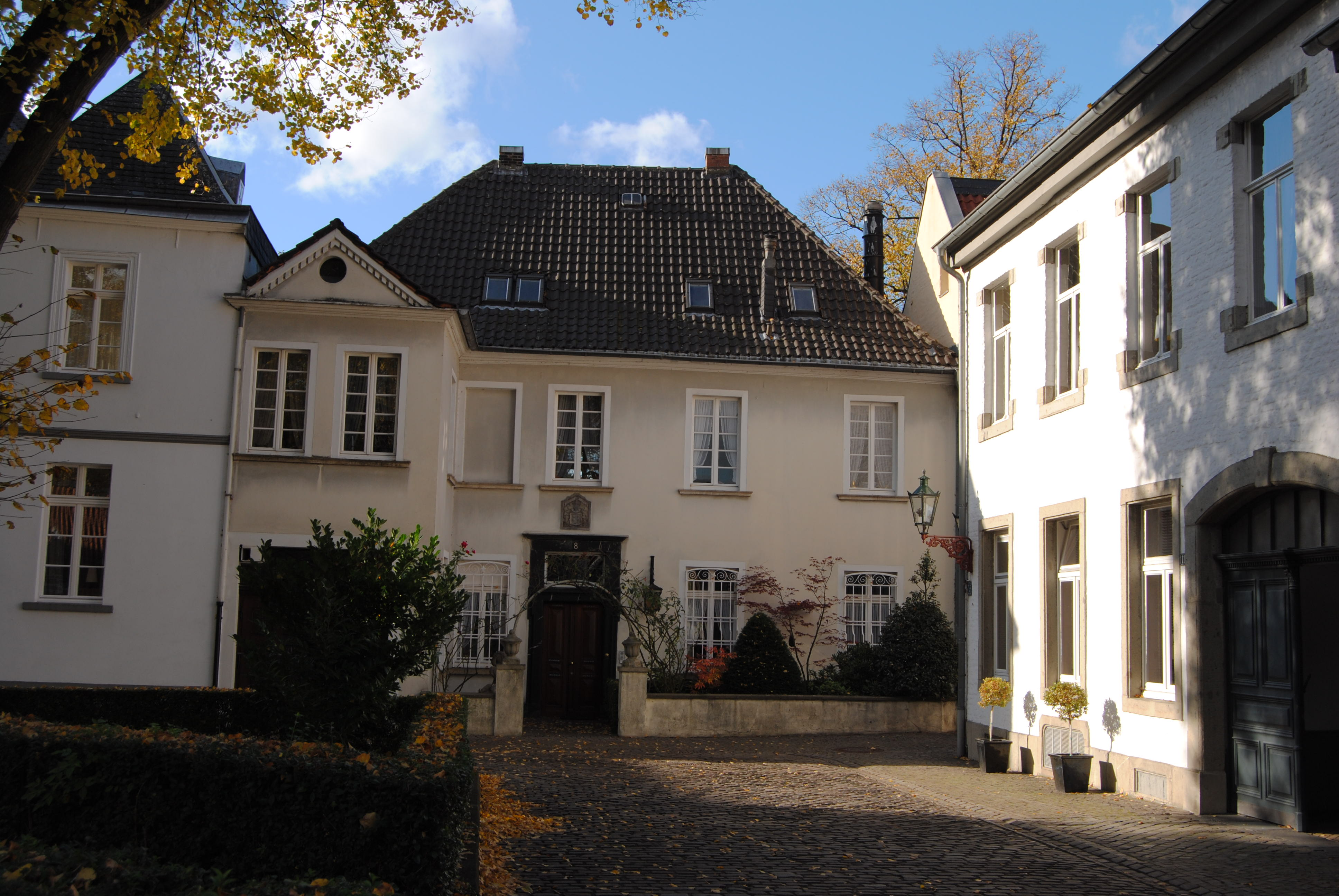 This photograph was taken with a Nikon D3000. This image shows a heritage building in Germany, located in the North Rhine-Westphalian city Düsseldorf.